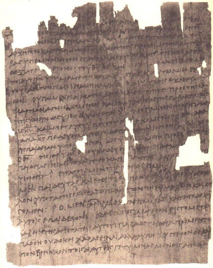 Papyrus 13 - British Library Papyrus 1532 - Epistle to the Hebrews